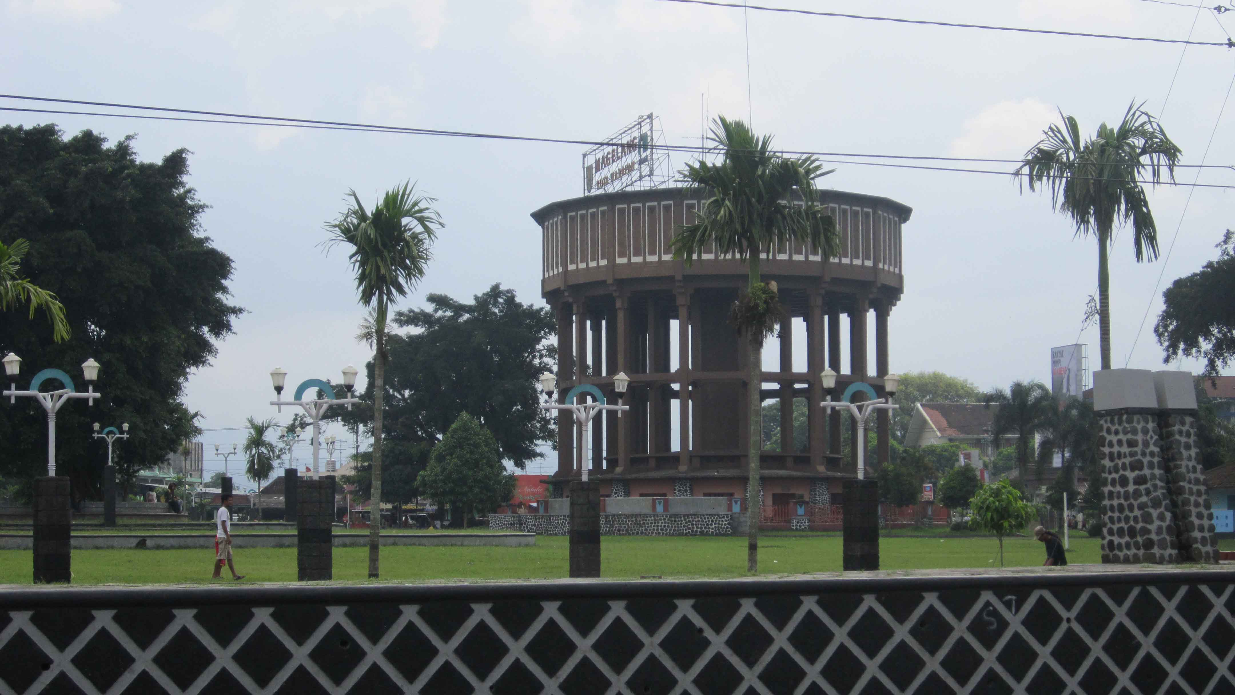 magelang city big stove